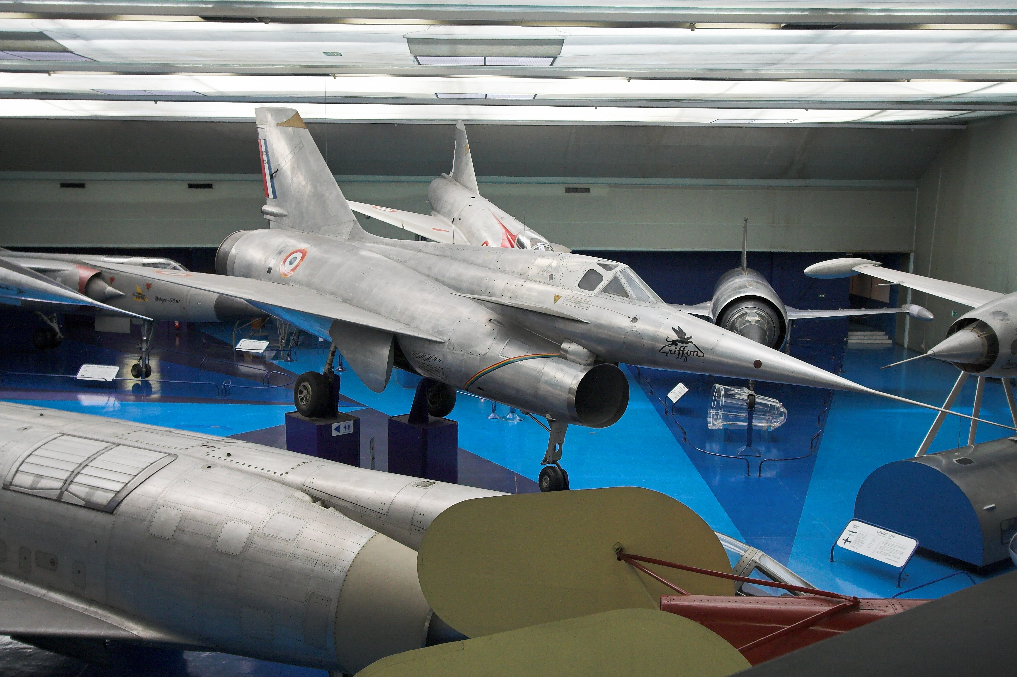 French experimental aircraft Nord 1500 "Griffon" (Musée de l'air et de l'espace, Le Bourget, France)